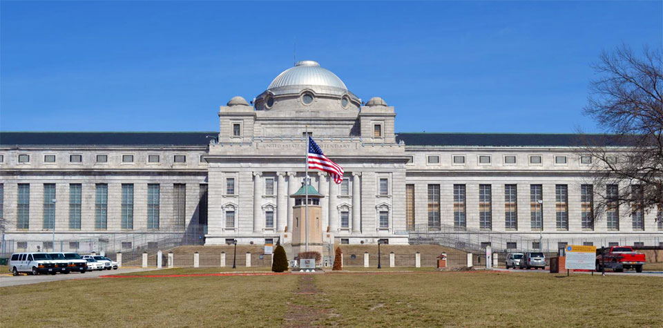 United States Penitentiary, Leavenworth